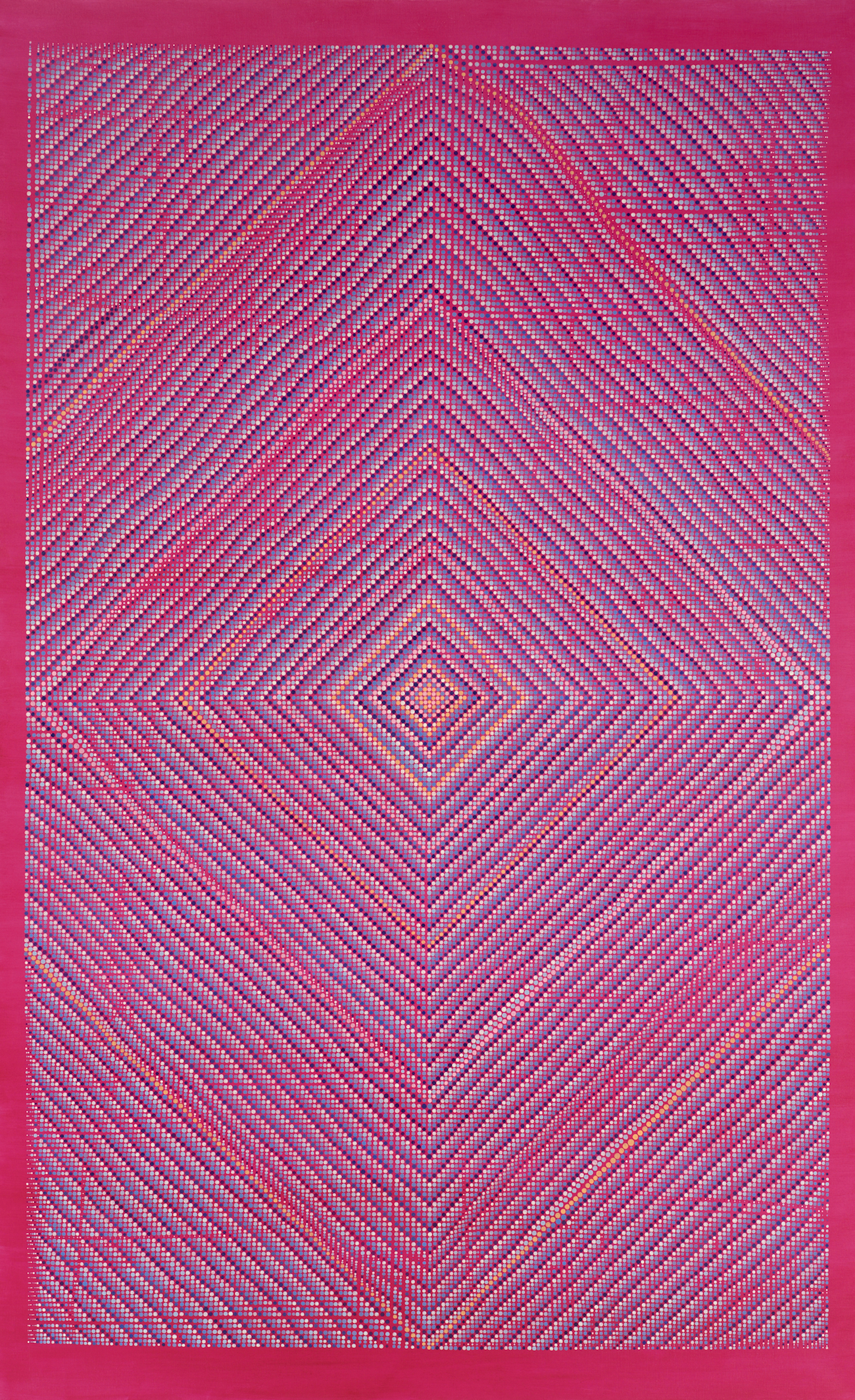 Grace DeGennaro, Duration (Magenta), 2018, oil on linen, 78 x48""